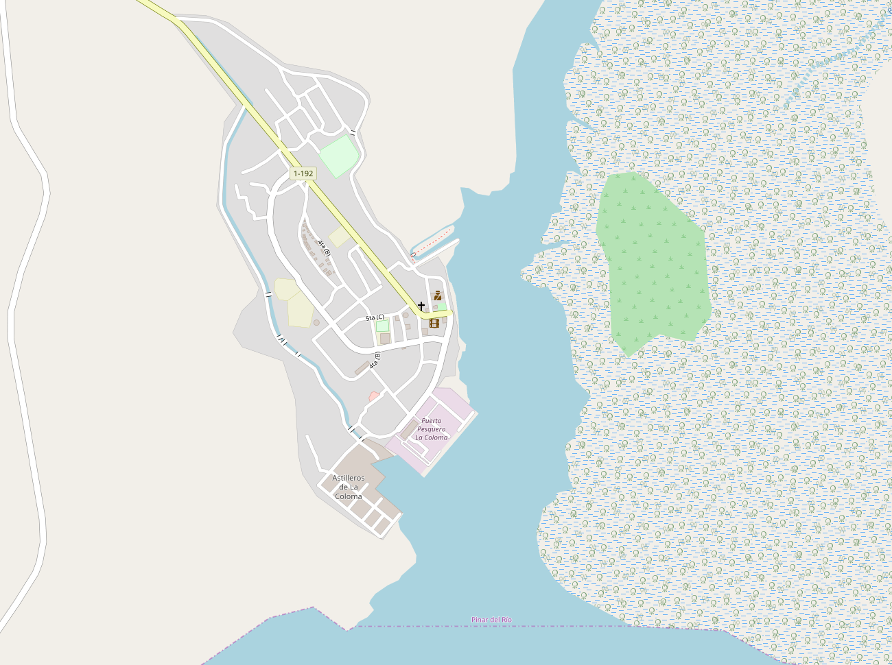 This map may be incomplete, and may contain errors. Don't rely solely on it for navigation.